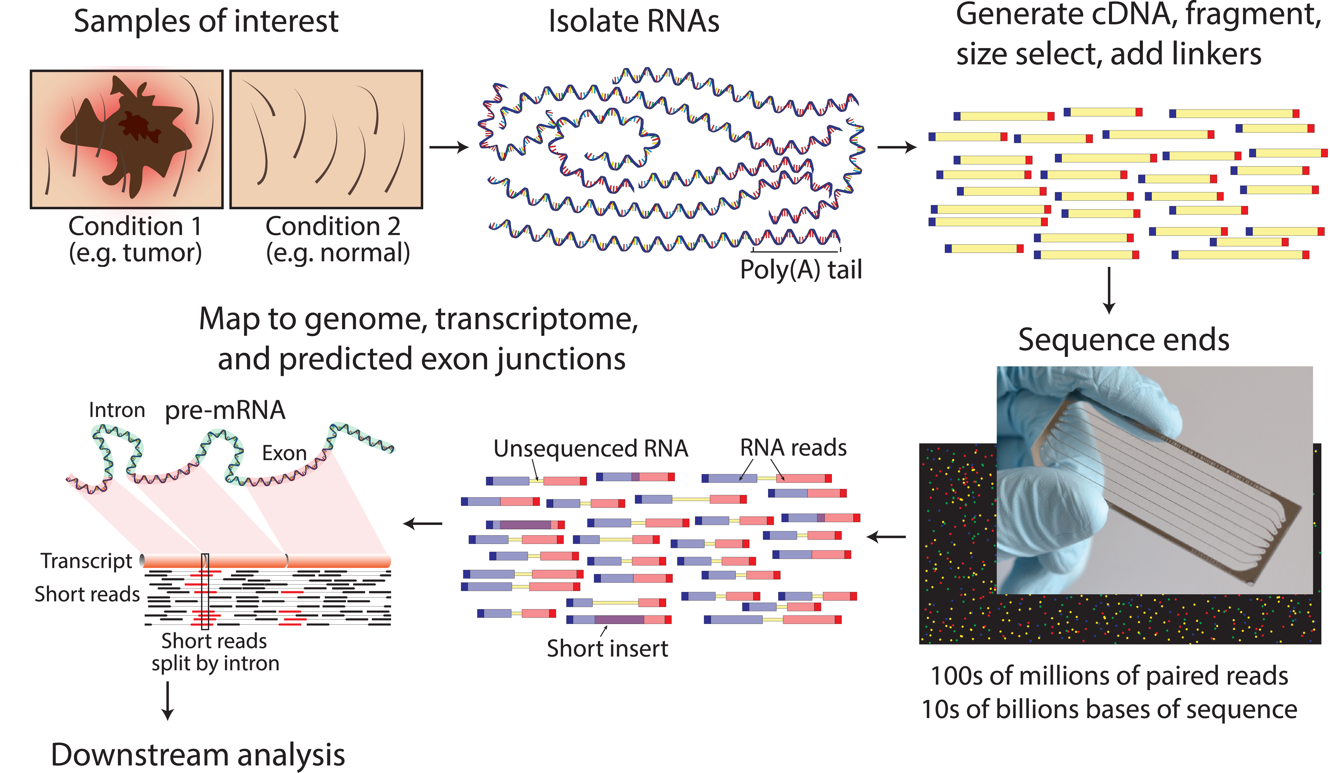 "RNA-seq data generation. A typical RNA-seq experimental workflow involves the isolation of RNA from samples of interest, generation of sequencing libraries, use of a high-throughput sequencer to produce hundreds of millions of short paired-end reads, alignment of reads against a reference genome or transcriptome, and downstream analysis for expression estimation, differential expression, transcript isoform discovery, and other applications. Refer to S1 Table, S3 Table, and S7 Table for more details on the concepts depicted in this figure." Image taken from Figure 2 in Griffith, Malachi; Walker, Jason R.; Spies, Nicholas C.; Ainscough, Benjamin J.; Griffith, Obi L. (2015). "Informatics for RNA Sequencing: A Web Resource for Analysis on the Cloud". PLOS Computational Biology. 11 (8): e1004393. ISSN 1553-7358.